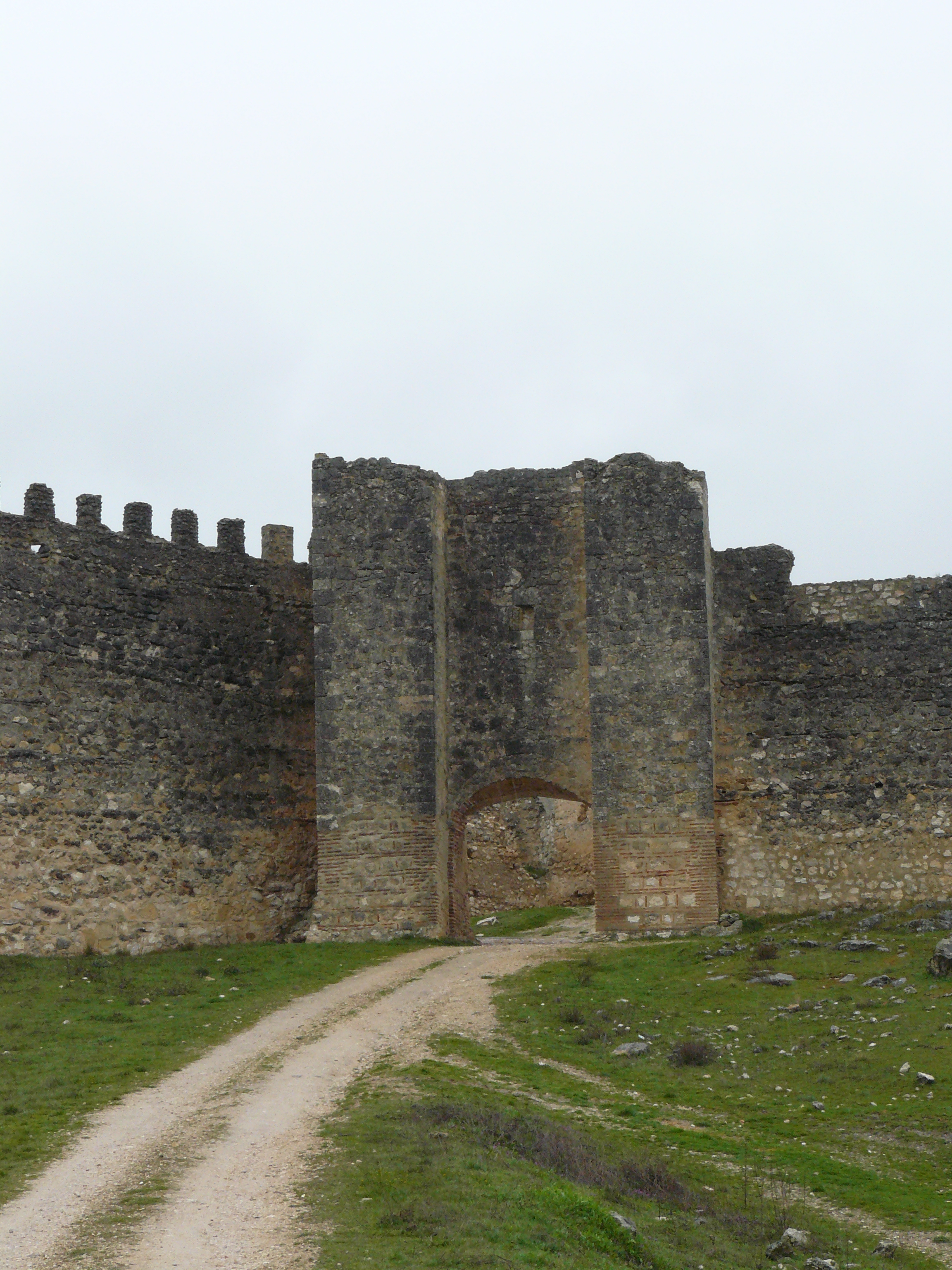 Gate of Alfonso VIII, Fuentidueña (province of Segovia, Castile and León, Spain).